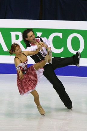 Jana Khokhlova & Sergei Novitski during their Yankee Polka compulsory dance at the 2008 European Figure Skating Championships